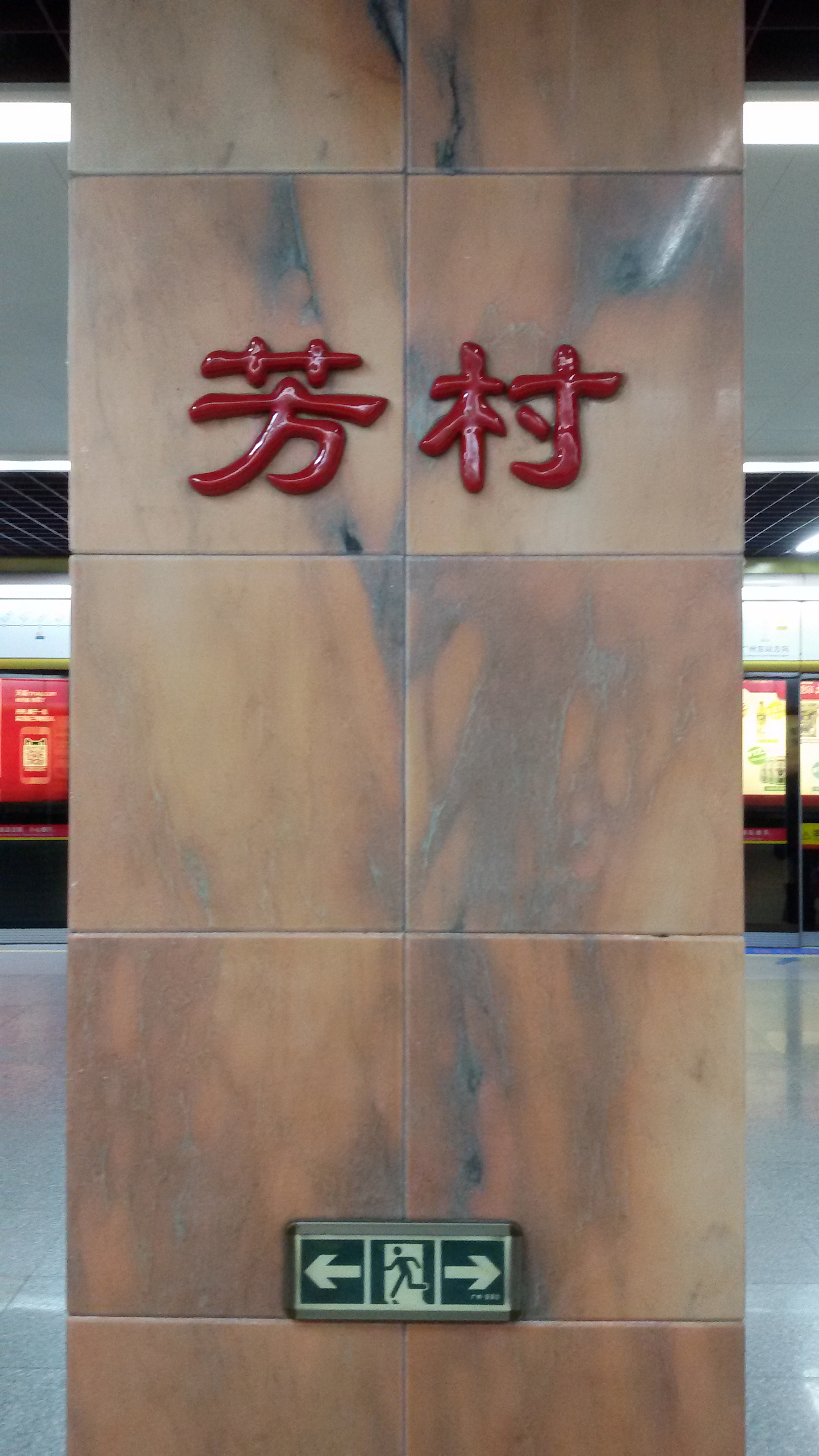 WORD on PILLAR for Fangcun Station in Guangzhou Metro. 粵語: 芳村站嘅柱上面啲字